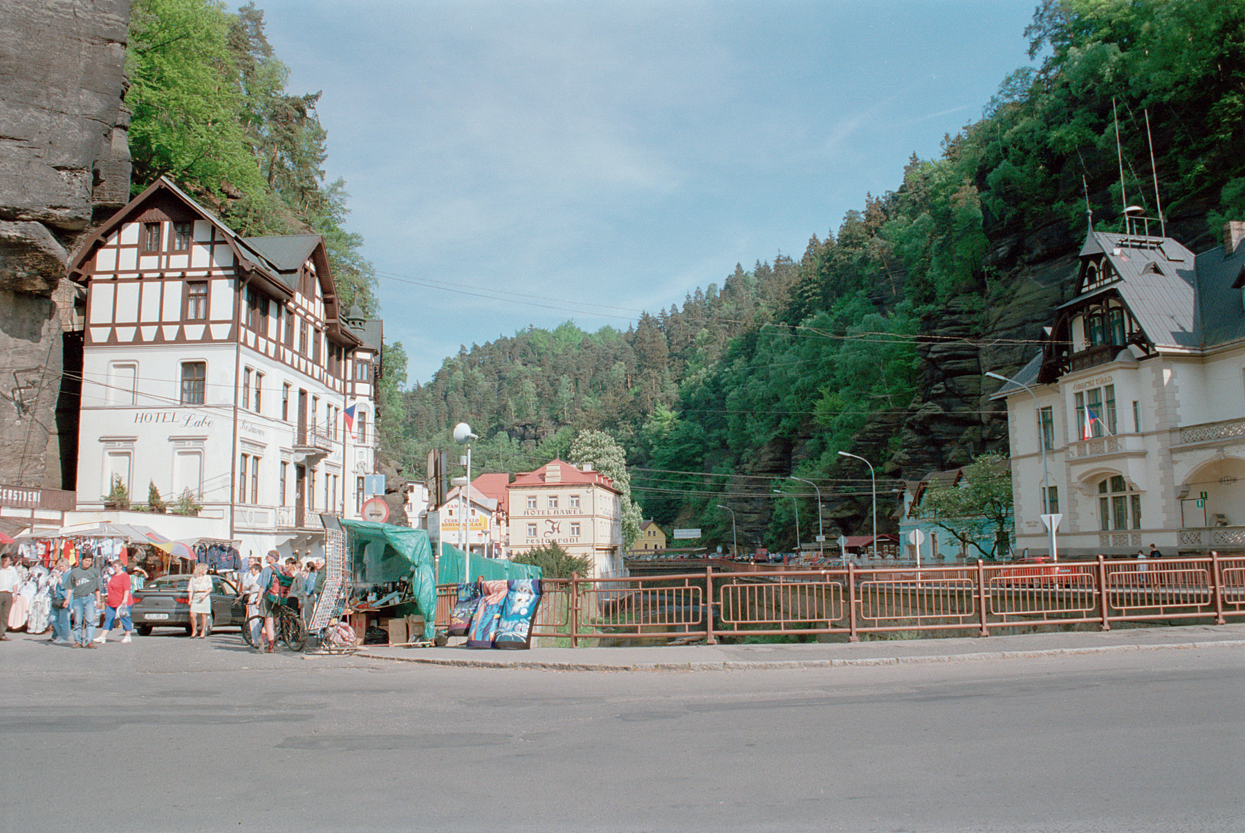 own picture, taken in spring 1998 Hřensko in Czech Republic view into the valley of the river Kamenice, river Labe ist directly behind